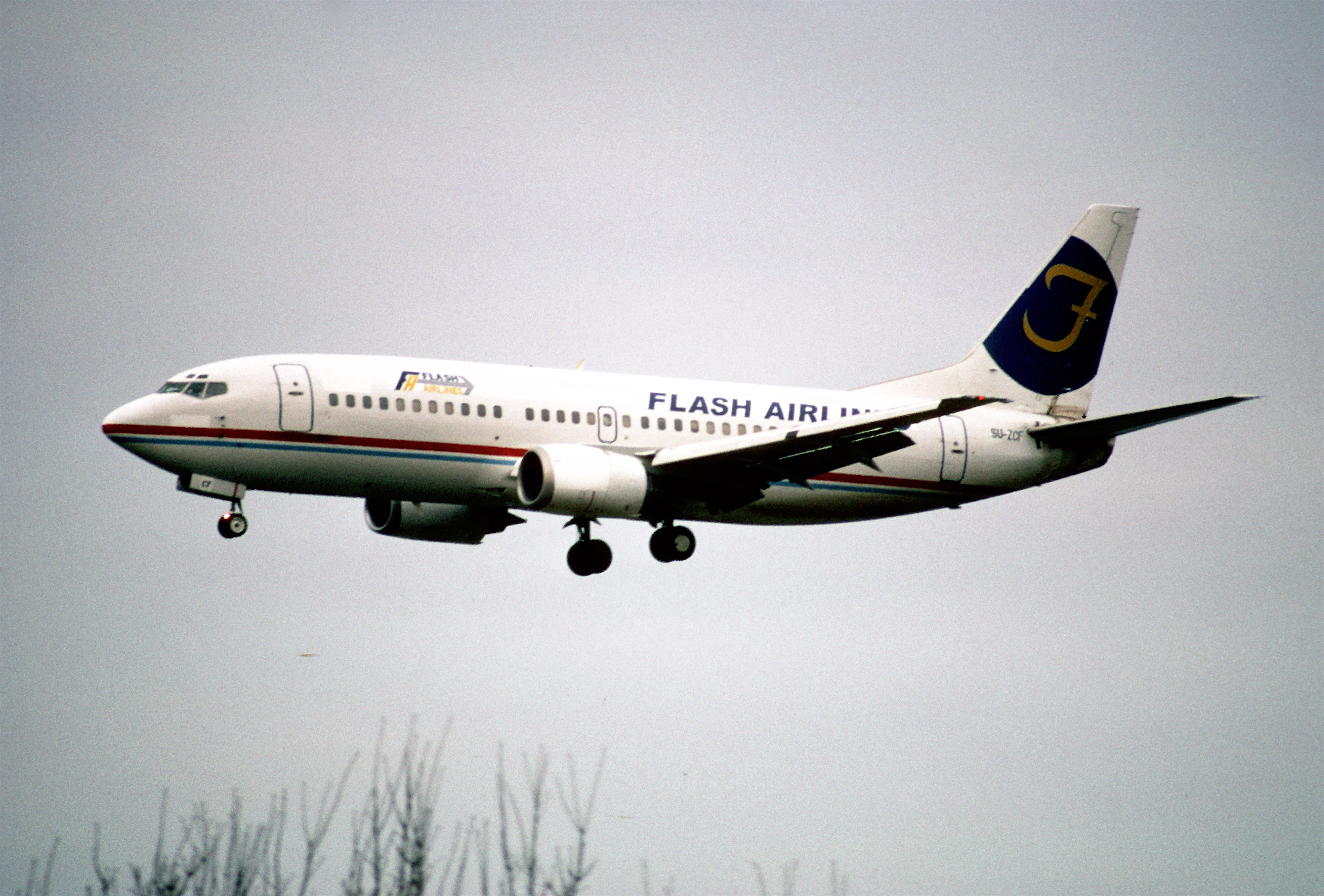 First flight: October 9, 1992... 22/10/1992 TACA N373TA 28/05/1998 Color Air G-COLB 22/11/1999 ILFC N161LF 21/04/2000 Heliopolis Airlines SU-ZCE 17/05/2000 ILFC N221LF 10/07/2000 Mediterranean Airlines SU-MBA 23/06/2001 Heliopolis Airlines SU-ZCF 22/07/2001 Flash Airlines SU-ZCF This aircraft crashed into the Red Sea after take off from Sharm el Sheikh, Egypt, on January 3, 2004 killing all 142 passengers, many of them French tourists, and all 6 crew members. Flight 604 - destination Paris Charles de Gaulle - has the highest death toll of any aviation accident in Egypt, and the highest death toll of any accident involving a Boeing 737-300. In 2002 Swiss aviation authorities performed a surprise inspection on SU-ZCF, a Flash Airlines Boeing 737-300. They discovered missing pilot oxygen masks, a lack of oxygen tanks, and inoperable cockpit instruments. The Swiss grounded the aircraft until Flash repaired the plane. Several days later Switzerland banned Flash. In addition, Poland banned Flash. Tour operators in Norway ceased contracting with Flash. The crash of Flight 604 led to an investigation that exposed poor safety measures and helped lead to the folding of Flash.